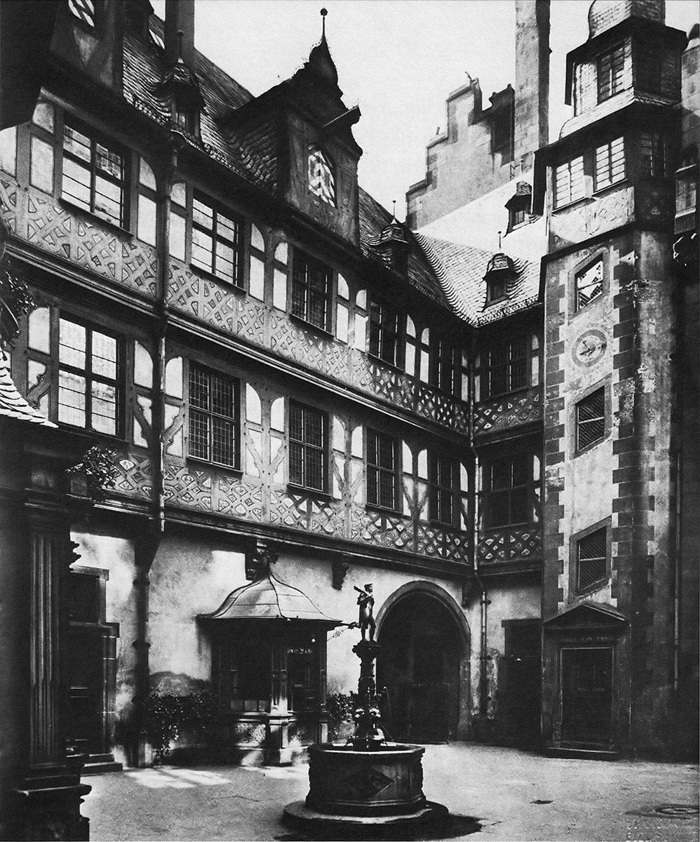 Frankfurt am Main: Roemerhoefchen (Litte Roemer Courtyard) in between the Roemer buildings Alt-Limpurg (southeast, to the very left of the image just the entrance of its Renaissance stair tower), Silberberg (south / southwest, half-timbered building in left third of the image with closing stair tower), Frauenrode (west), Goldener Schwan (north) and the actual Roemer (northeast)